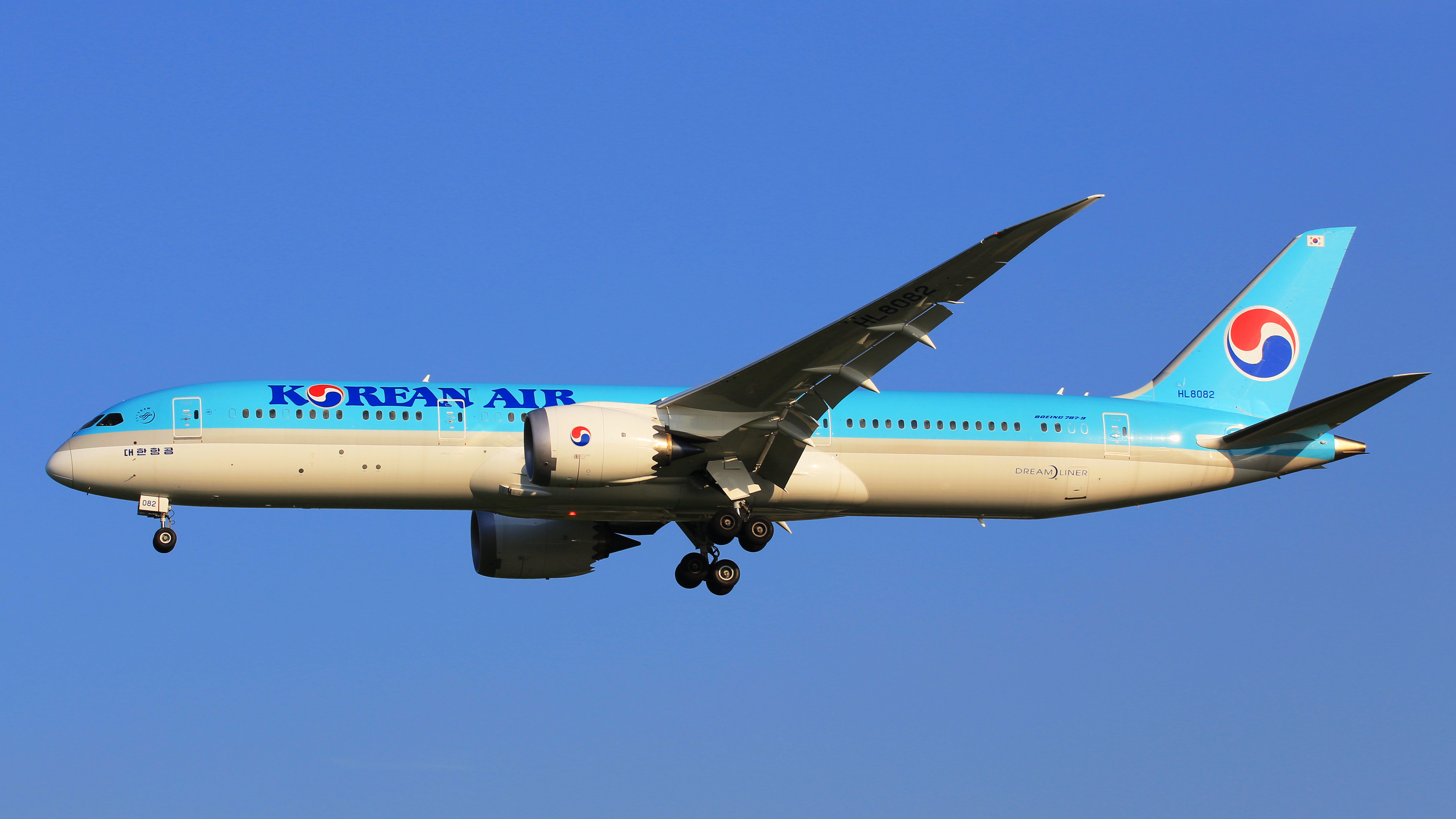 Boeing 787 of Korean Air at Taiwan Taoyuan International Airport